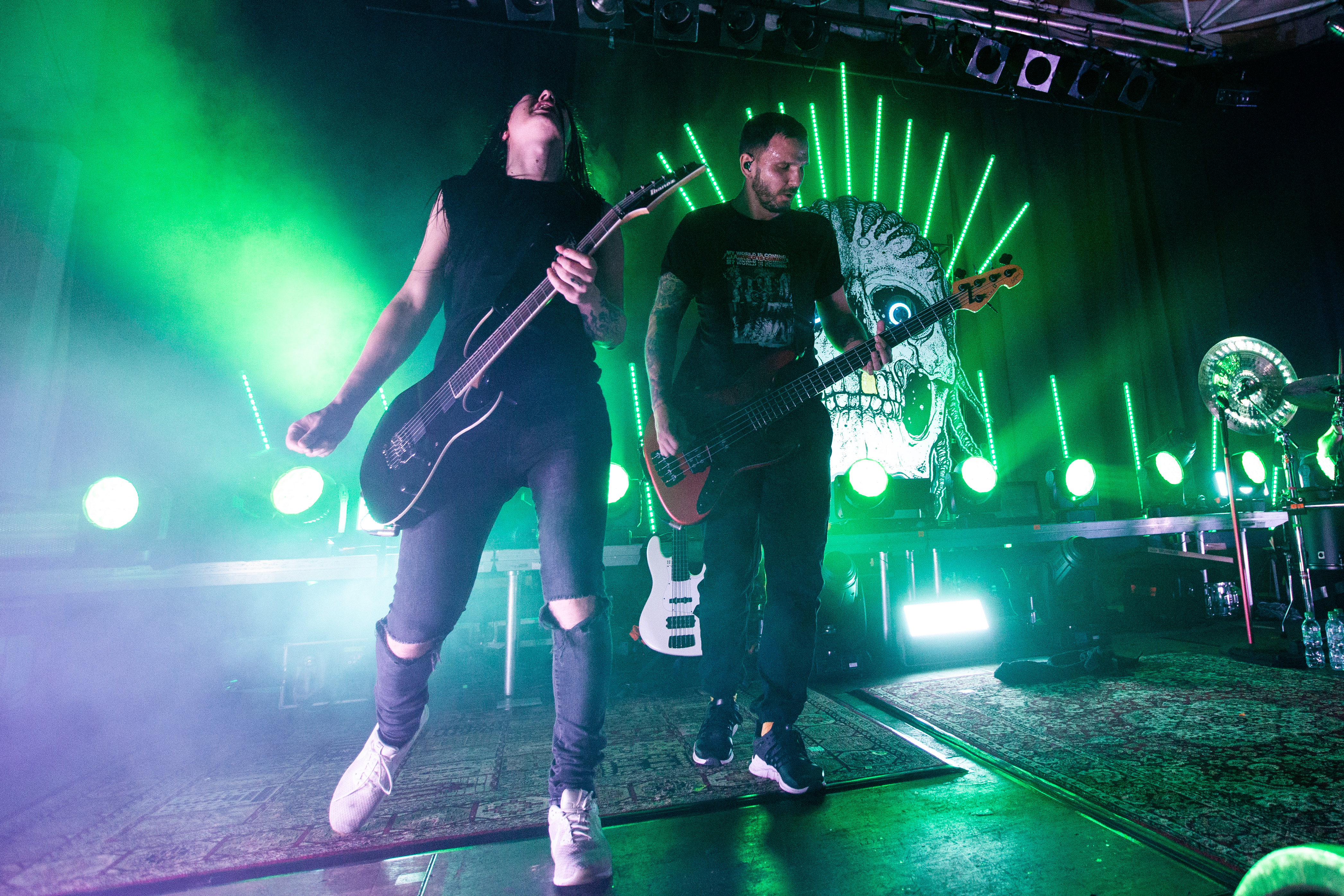 Bernhard Horn (Lead Guitar), Thorsten Becker (Base Guitar) of German metalcore group Callejon on Hartgeld im Club Tour (2019), ZAKK, Düsseldorf (DEU) /// leokreissig.de for Wikimedia Commons